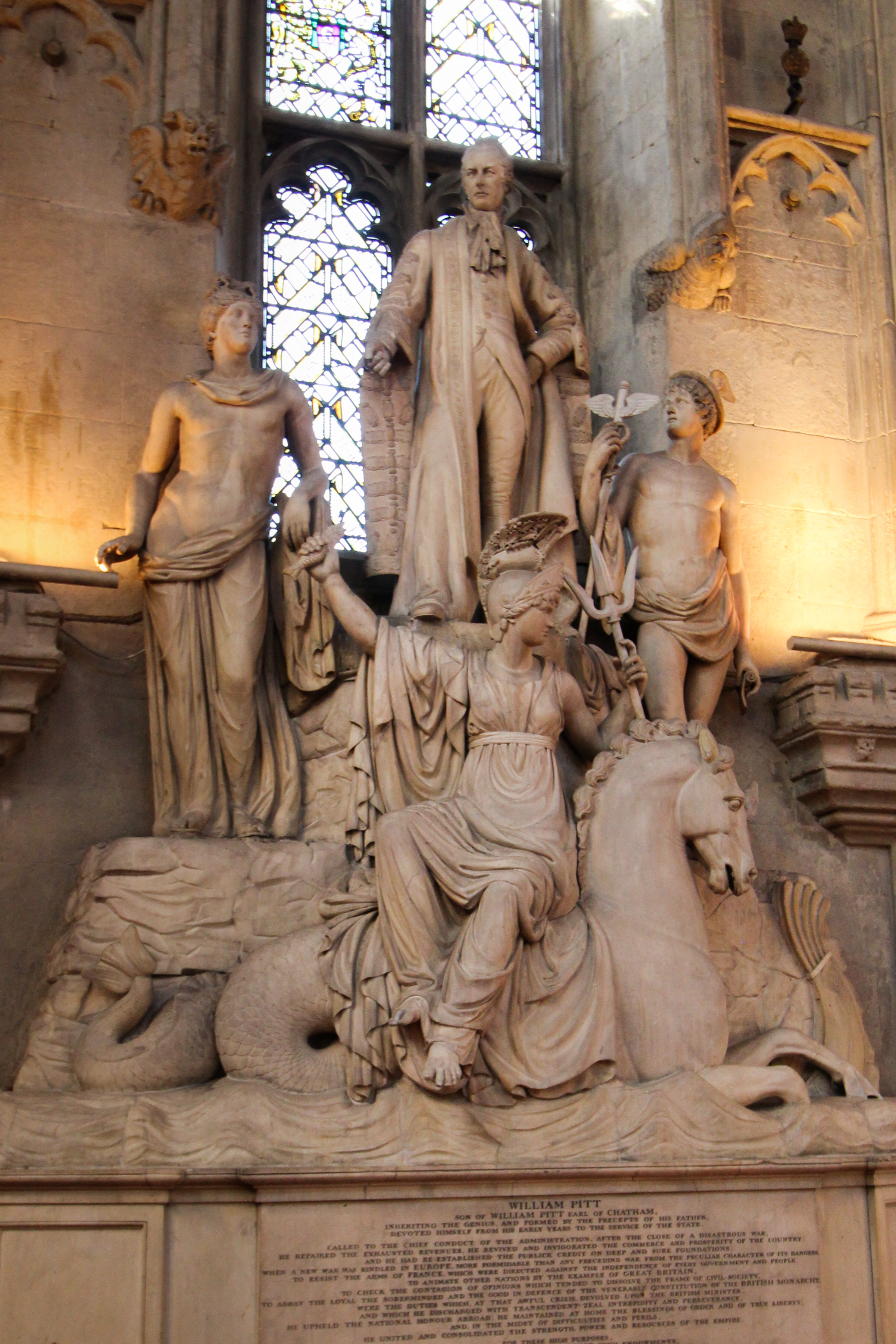 Guildhall|, City of London. Open House Weekend 2015.